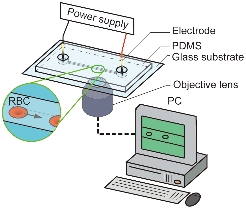 Two conical electrodes are set at both the inlet and outlet of a microchannel. Cells are moved along the microchannel by applying a dc electric field.